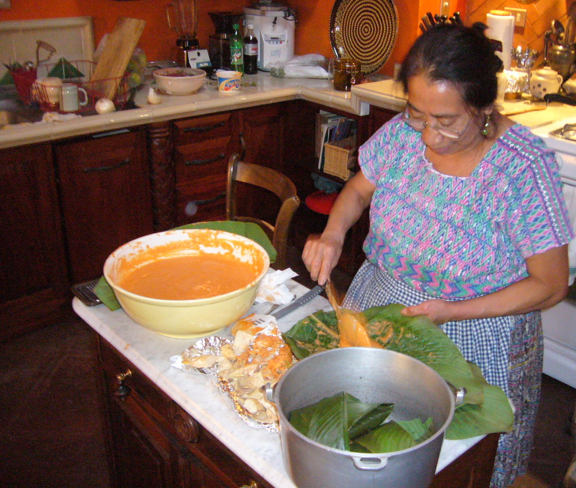 woman preparing potato paches at la antigua, guatemala